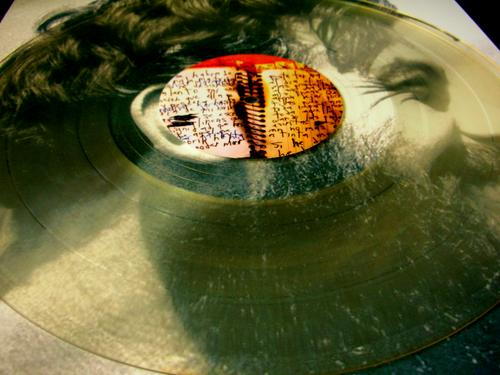 SPAYED CLEAR 13 INCH ACETATE (One of thirty Three)